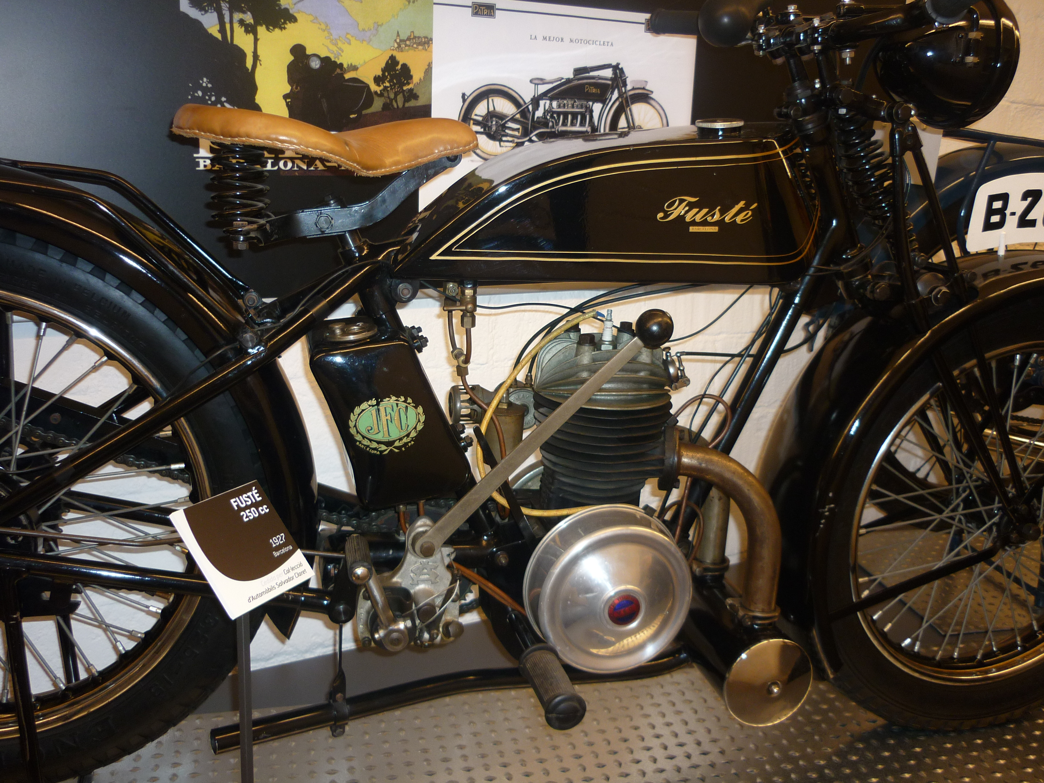 Fusté 250cc (1927). Museu de la Moto de Barcelona (Catalonia).